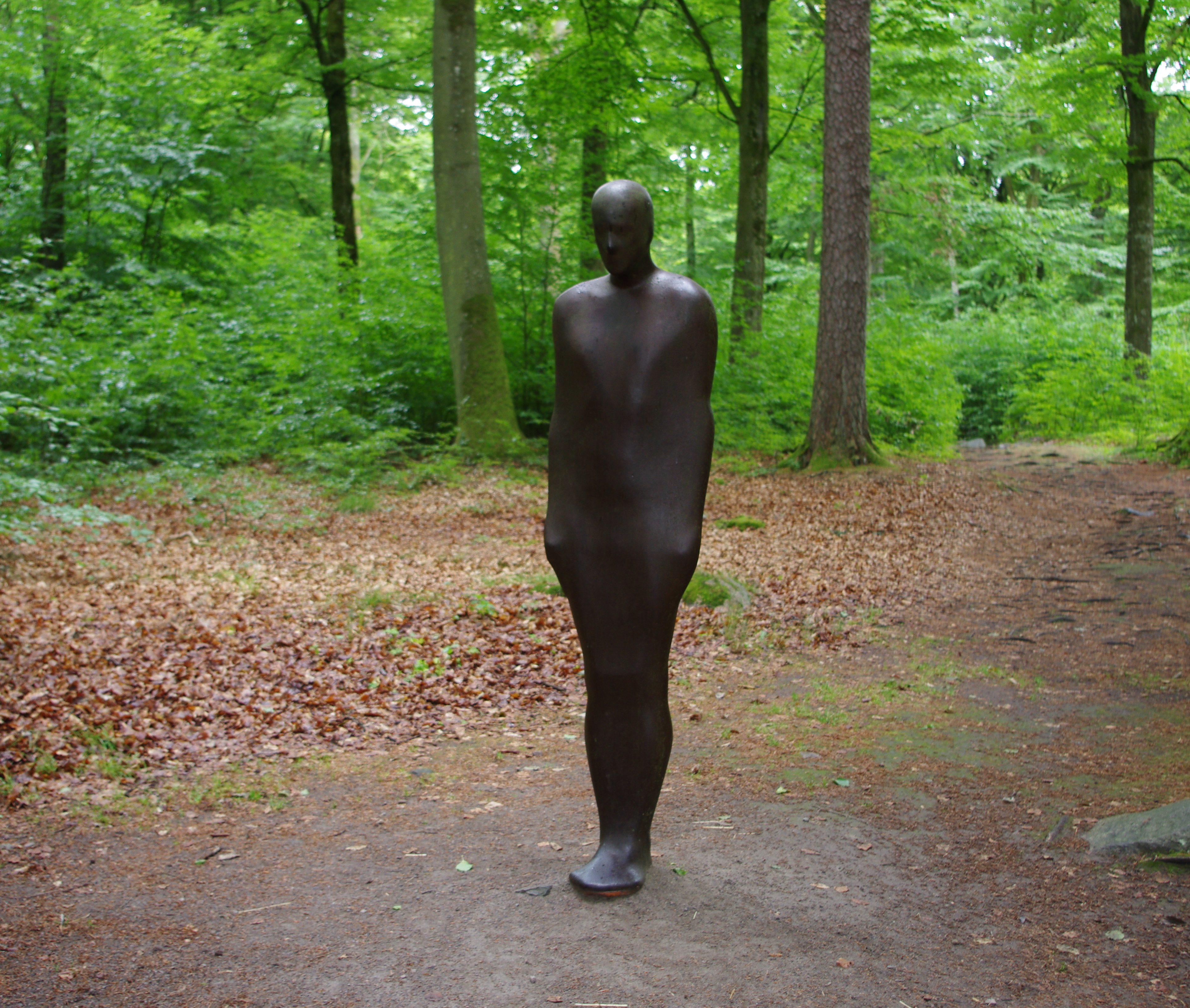 Alone in the forest.